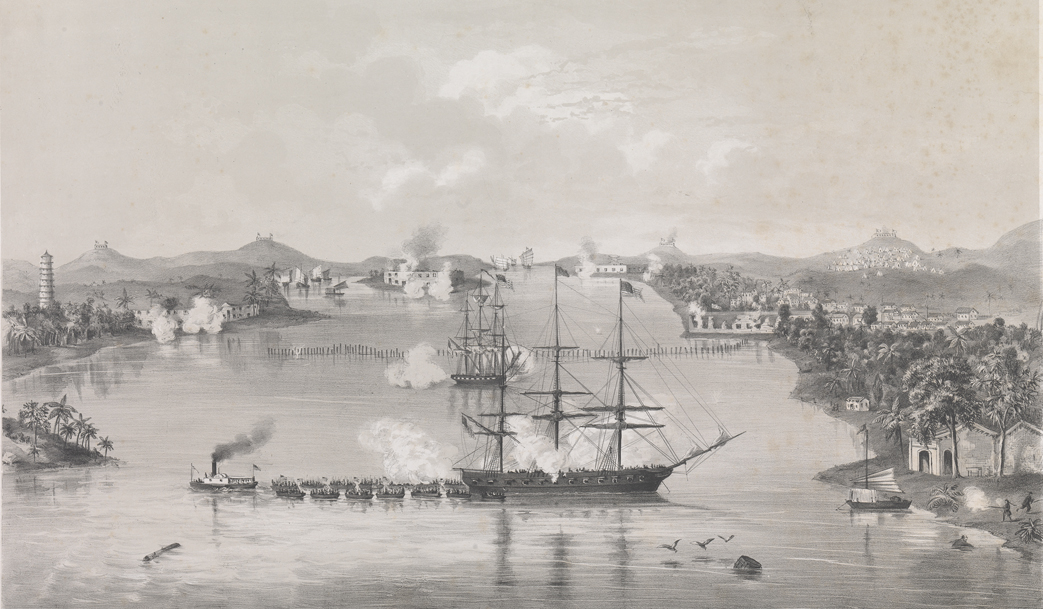 The attack on the Barrier Forts near Canton, China, by the American squadron on November 21, 1856 - consisting of the U.S. sloops of war Portsmouth and Levant with the officers and crew of the steam frigate San Jacinto.